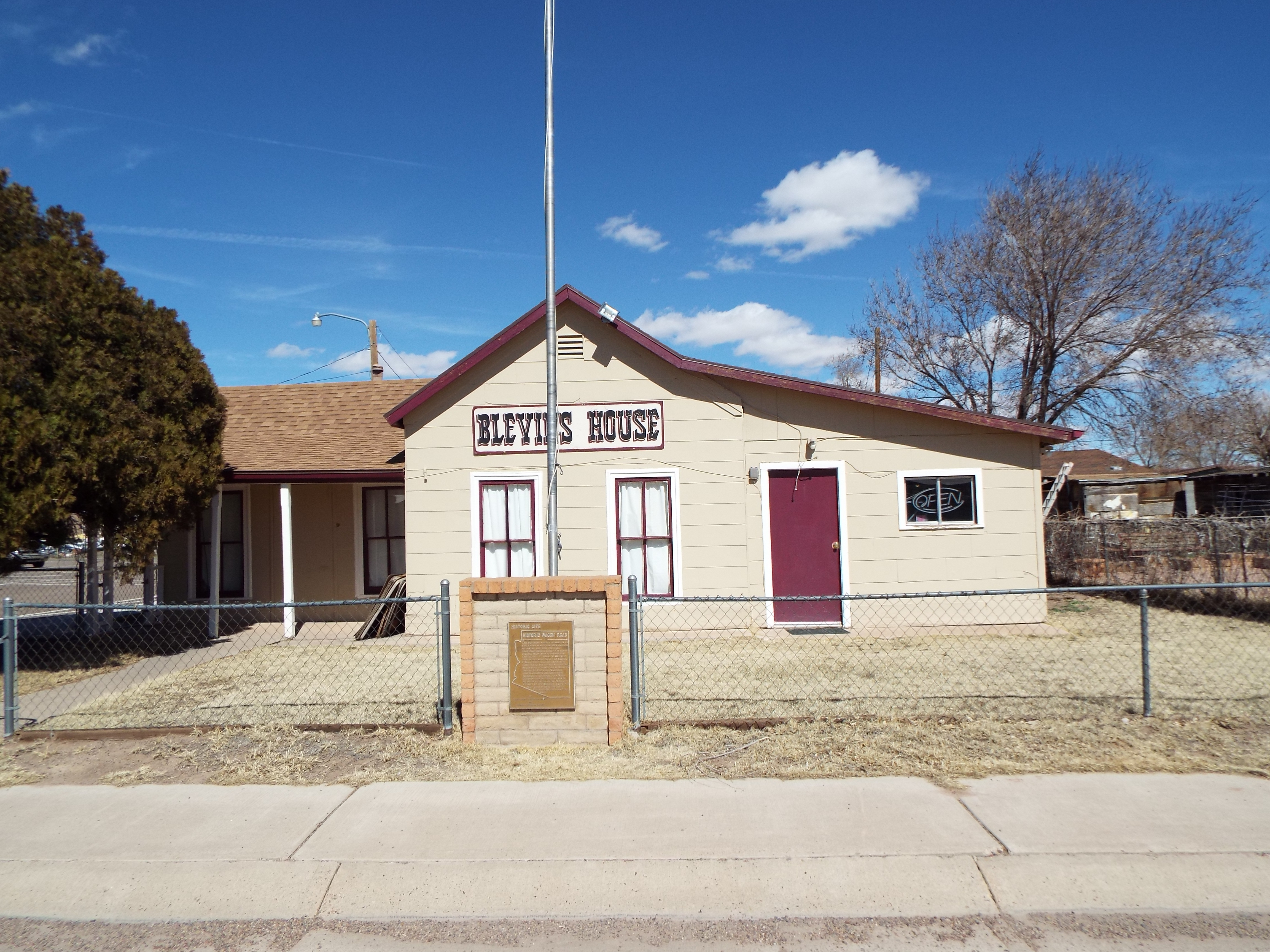 Blevins Home at Joy Nevin Ave. and Second Street in Holbrook, Az